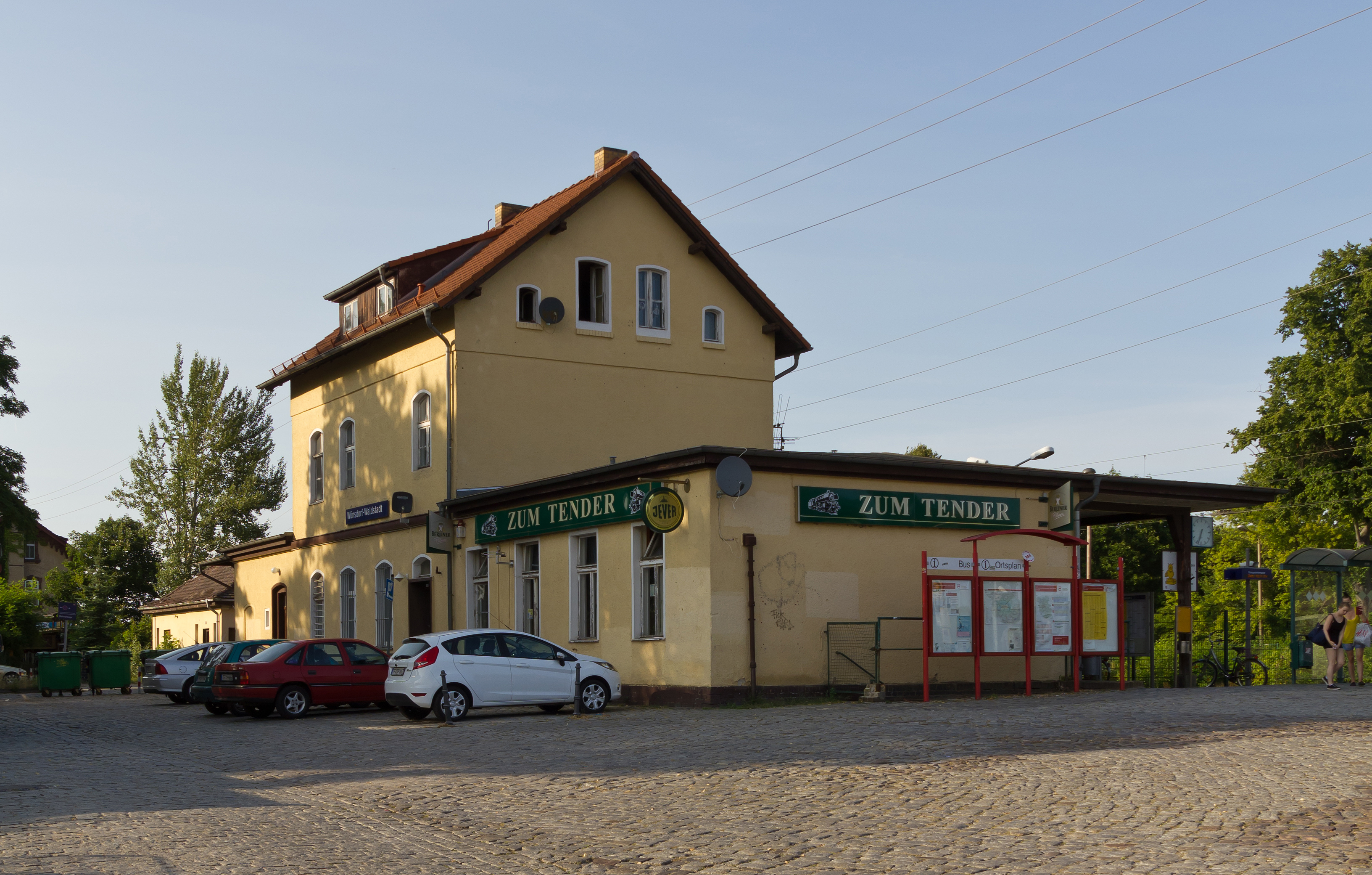 Train station Wünsdorf-Waldstadt, Brandenburg, Germany